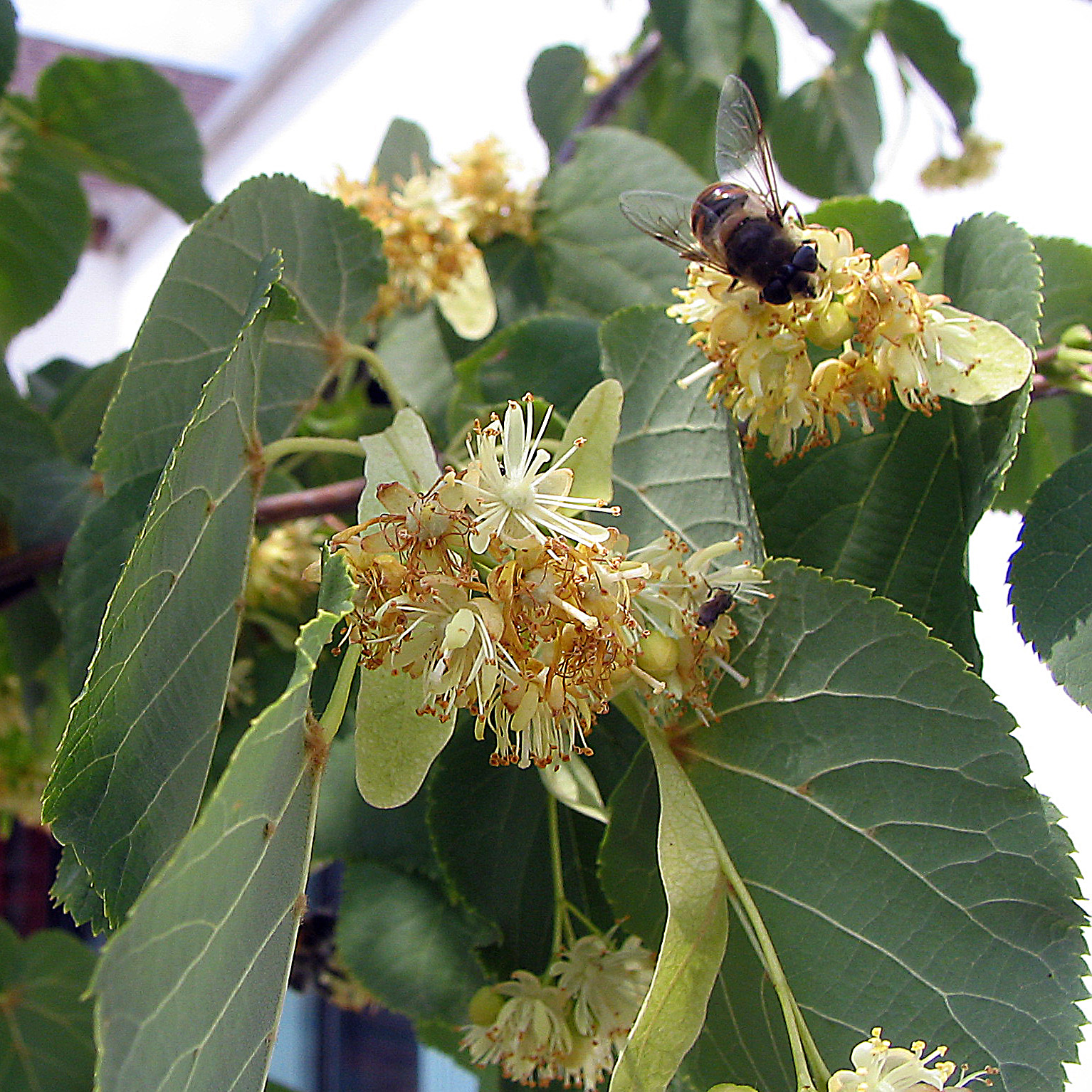 Tilia cordata flowers